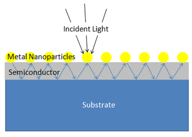 Philip Graf, Microsoft Power-point, drawn for visual aid when describing Plasmonic Solar Cells.